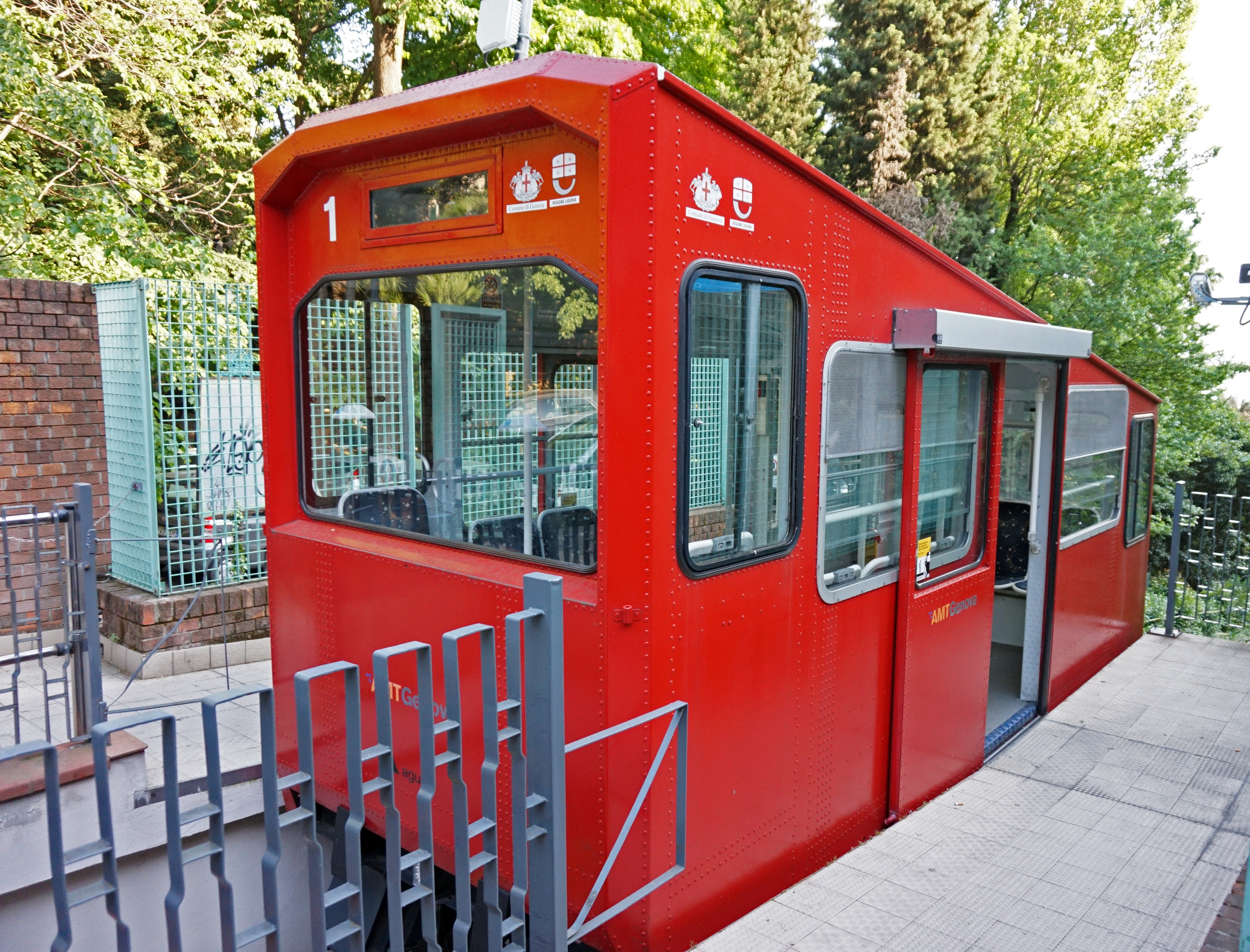 Write here This photograph was taken with a Sony Alpha a5000.